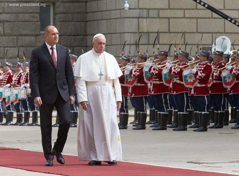 President Rumen Radev Welcomes His Holiness Pope Francis in Bulgaria.